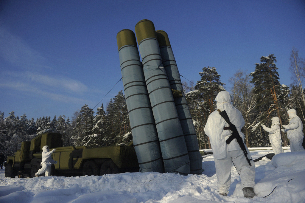 “Military exercises of Guards Engineer Brigade and Engineer Camouflage Regiment of Russian army”. Installing inflatable model of C-300 anti-aircraft missile system during the military exercises of Guards Engineer Brigade and Engineer Camouflage Regiment of Russian army.